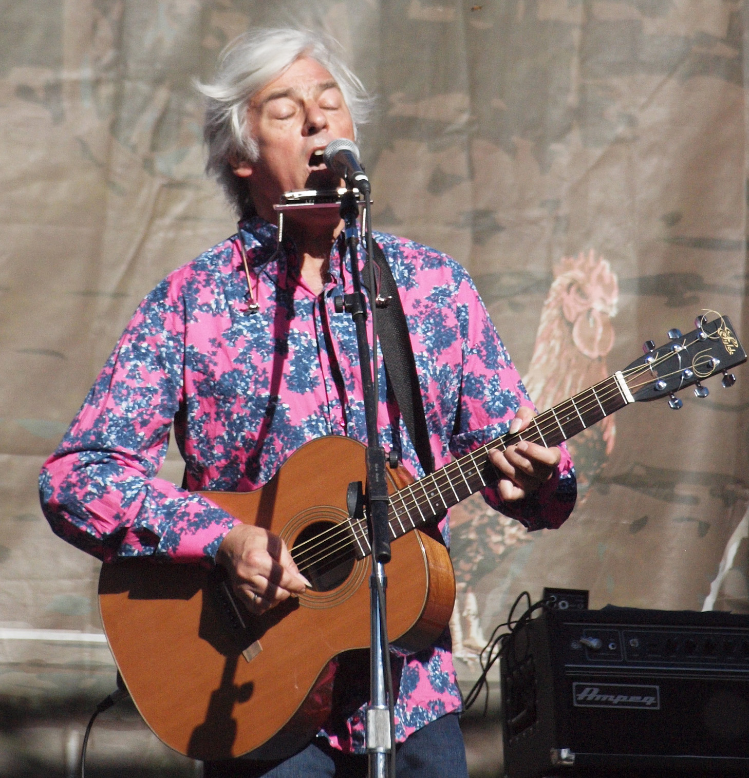 Eccentric English singer-songwriter Robyn Hitchcock performs at the 2012 Hardly Strictly Bluegrass festival in San Francisco.